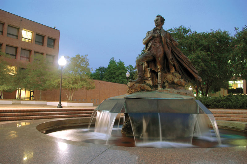 sfajacks